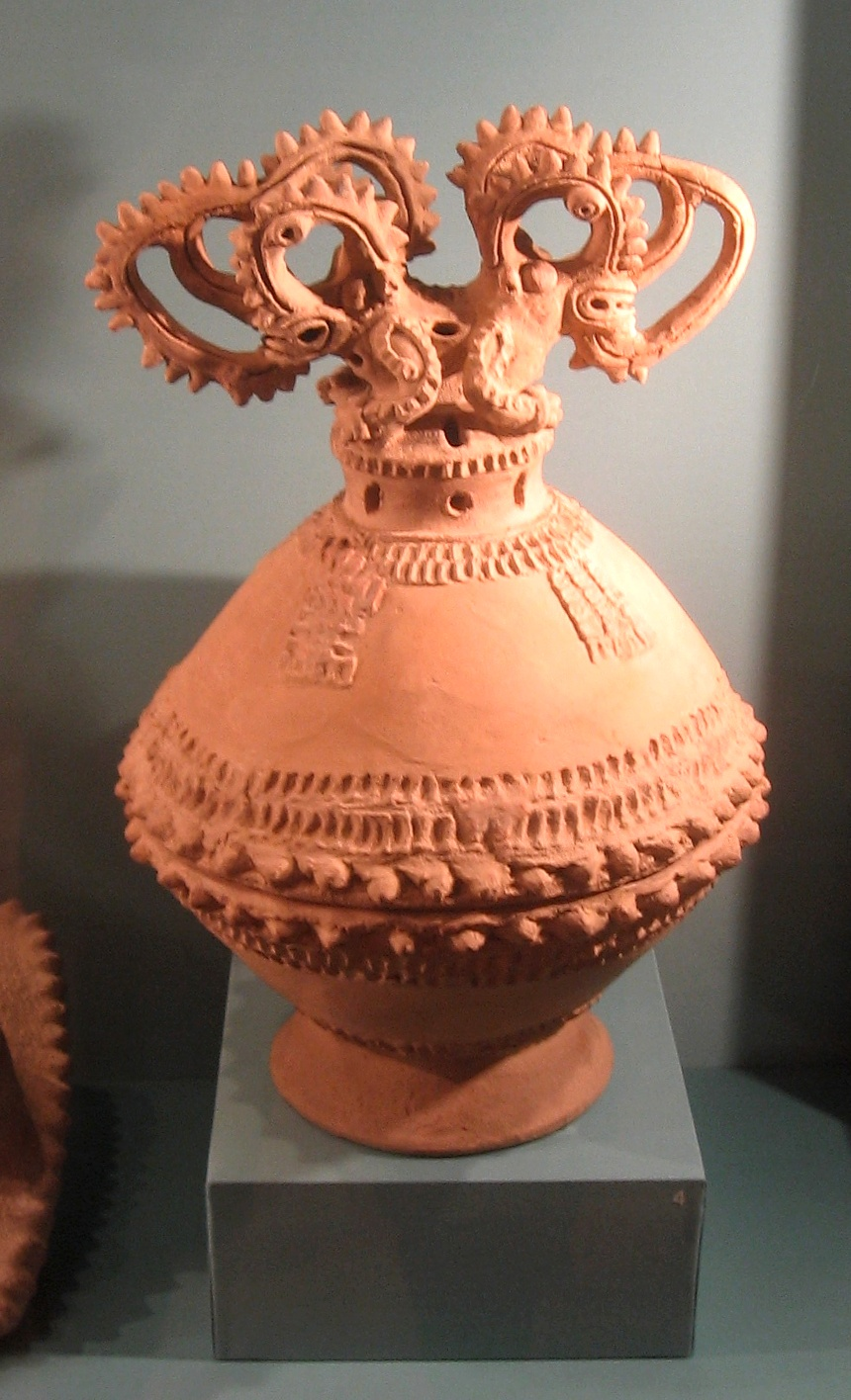 A Greater Nicoya ceramic incense burner with crocodile lid, 500 - 1350 CE (Period I - Period VII); Potosi applique; modern-day Costa Rica